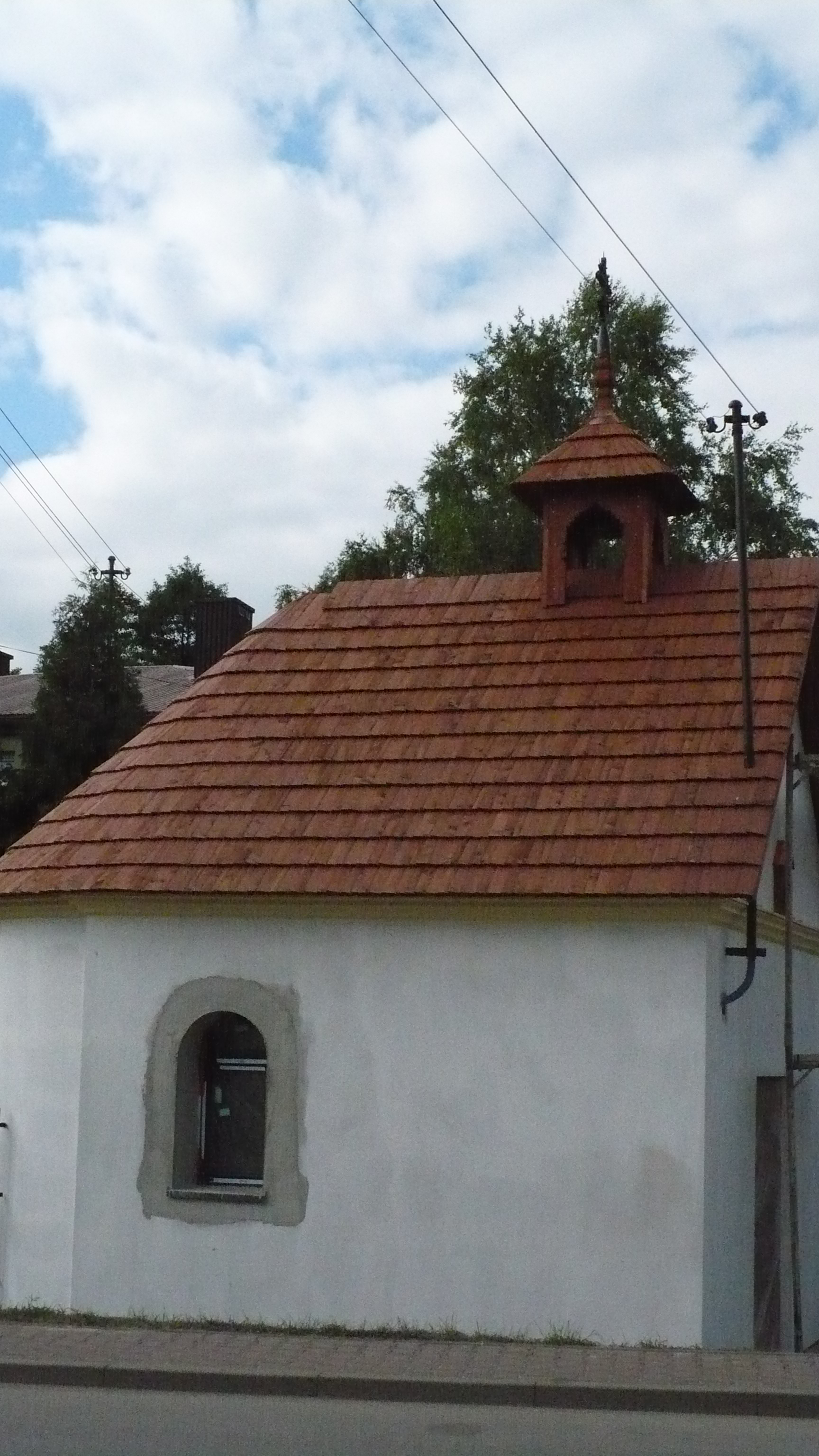 Chapel in Tucznawa during renovation